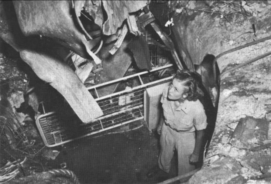 A U.S. Army nurse surveys the damage aboard the U.S. Navy hospital ship USS Comfort (AH-6). Following a voyage to Subic Bay and Lingayen Gulf, Luzon, for evacuees in March 1945, the hospital ship stood by off Okinawa from 2 to 9 April, receiving wounded for evacuation to Guam. Returning to Okinawa 23 April, 6 days later she was struck by a Japanese suicide plane. The plane crashed through three decks exploding in surgery which was filled with medical personnel and patients. Casualties were 28 killed (including six nurses), and 48 wounded, with considerable damage to the ship. Comfort had been the first hospital ship with a U.S. Navy crew and a U.S. Army staff.